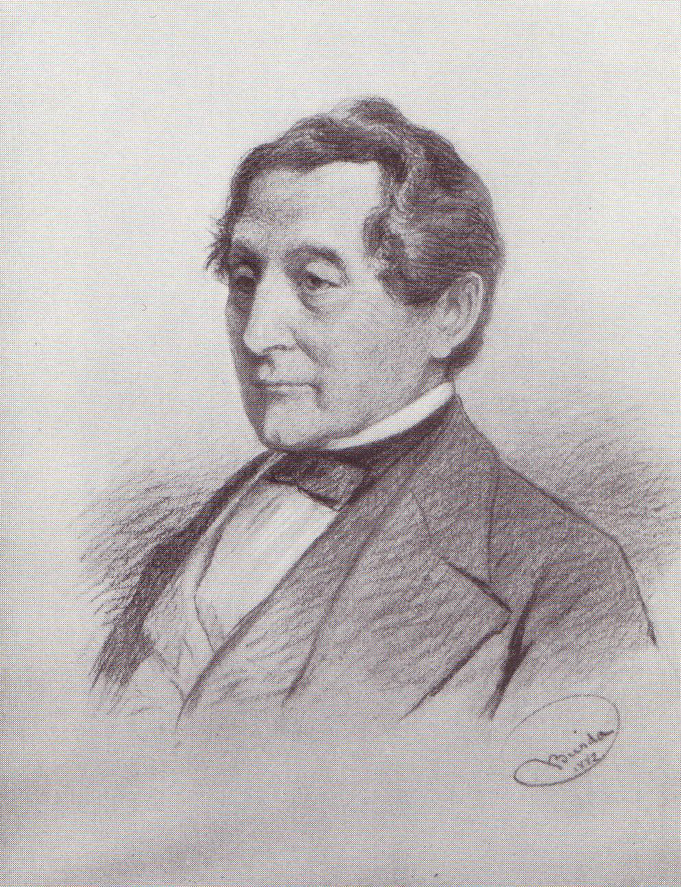 Wilhelm von der Schulenburg (1806-1883), member of the prussian Herrenhaus (first chamber), in 1882